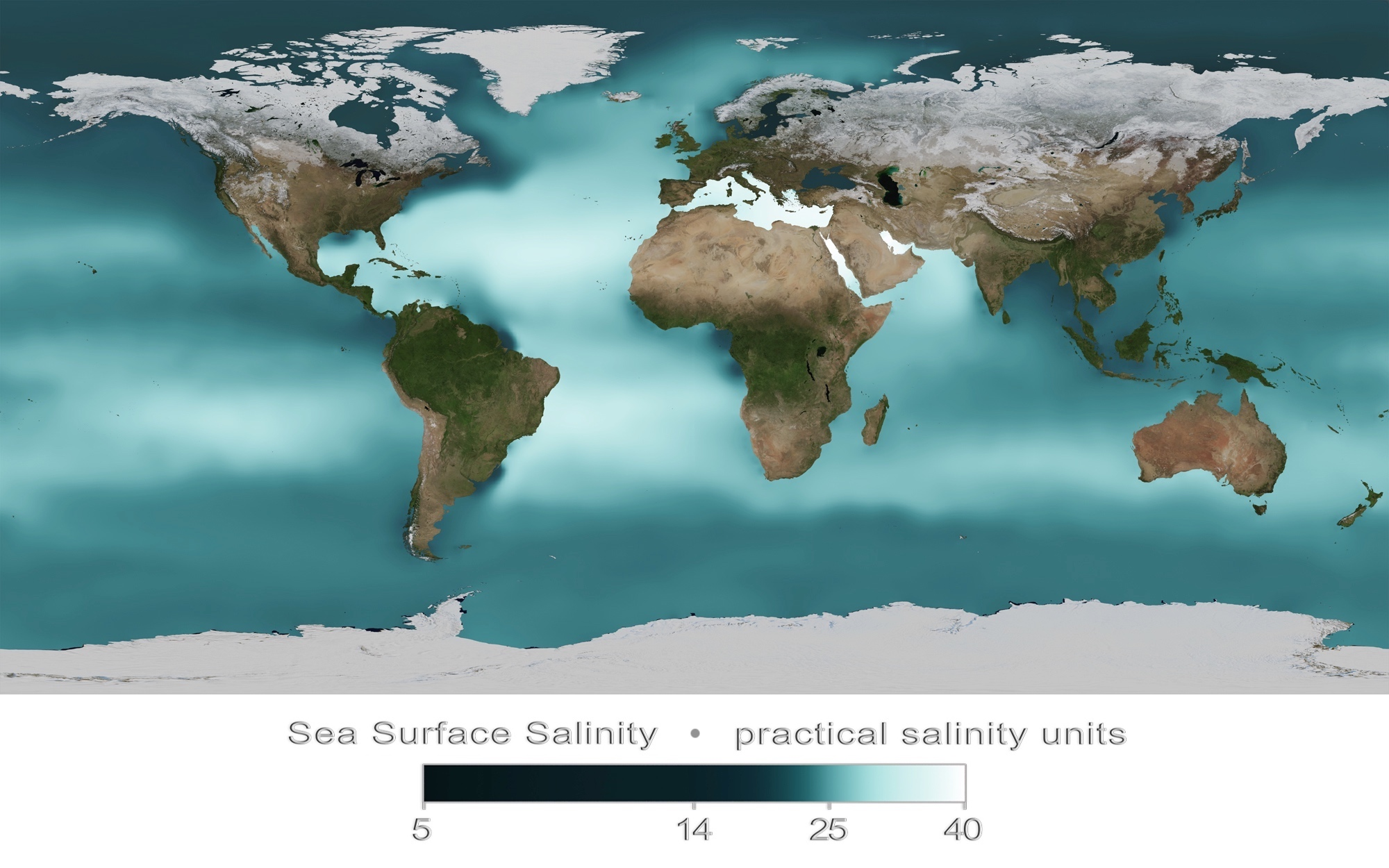 Global map of average Sea Surface Salinity.